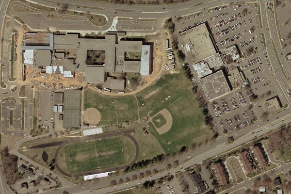 Aerial photograph of Walter Johnson High School, Bethesda, Maryland. Taken April 7, 2002 by the USGS.